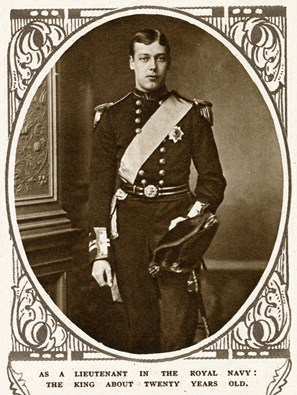 Prince George of Wales, later George V